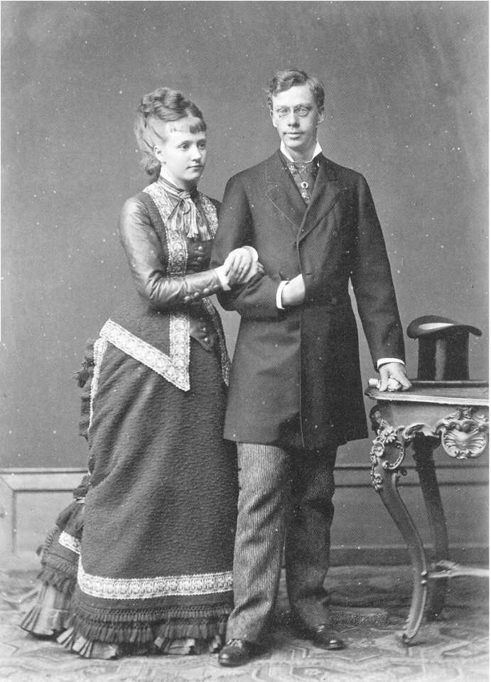 Adelgundes, Countess of Bardi with her husband Henry, Count of Bardi